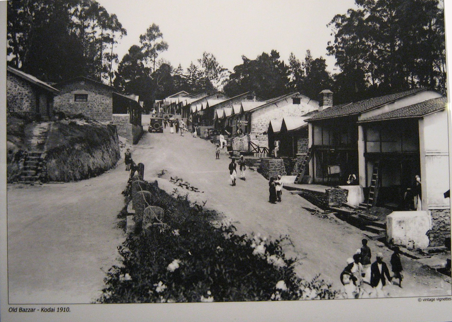 Postcard of Kodaikanal Bazzar Road, (Annai Salai), 1910